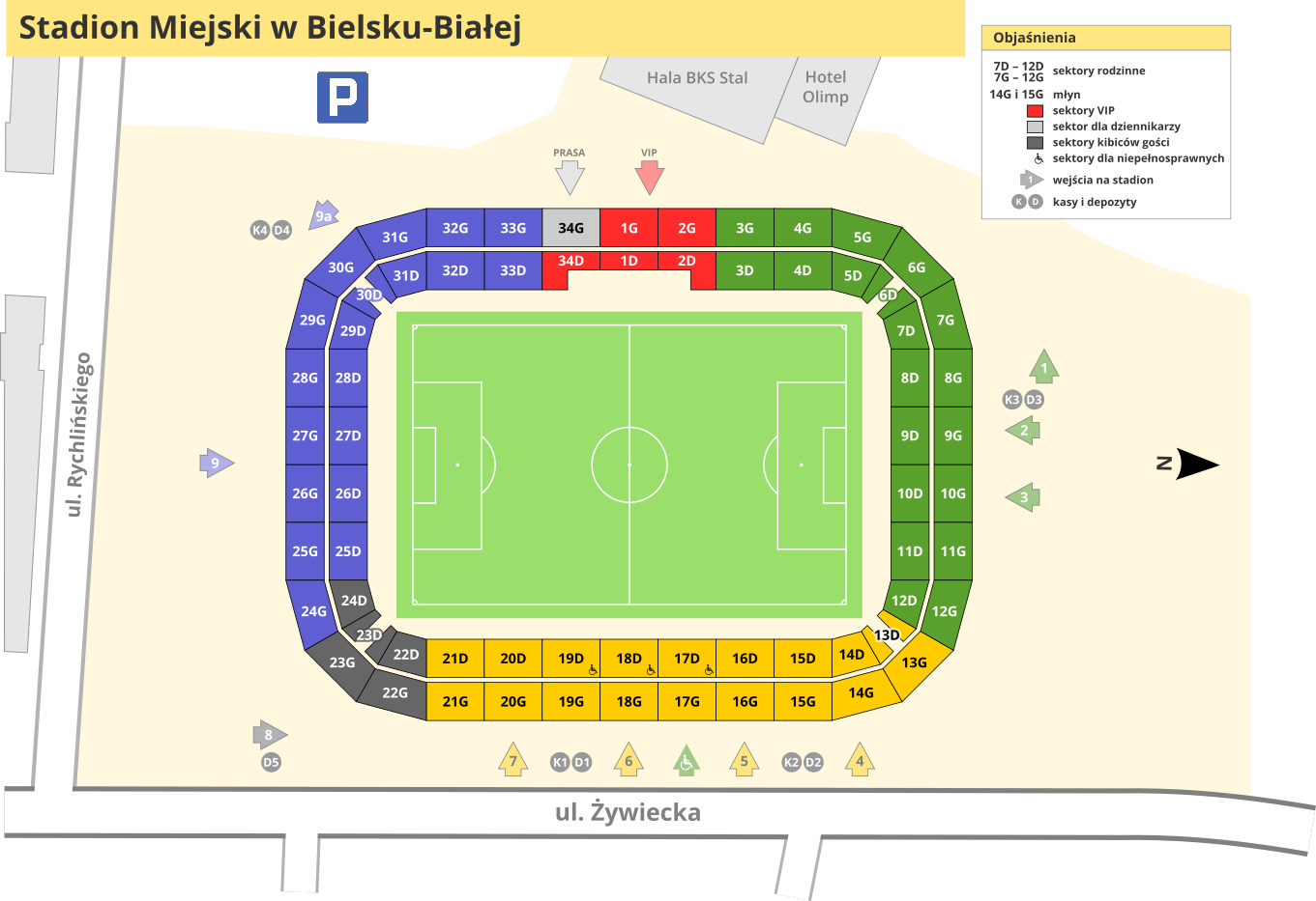 Stadion Miejski in Bielsko-Biała.